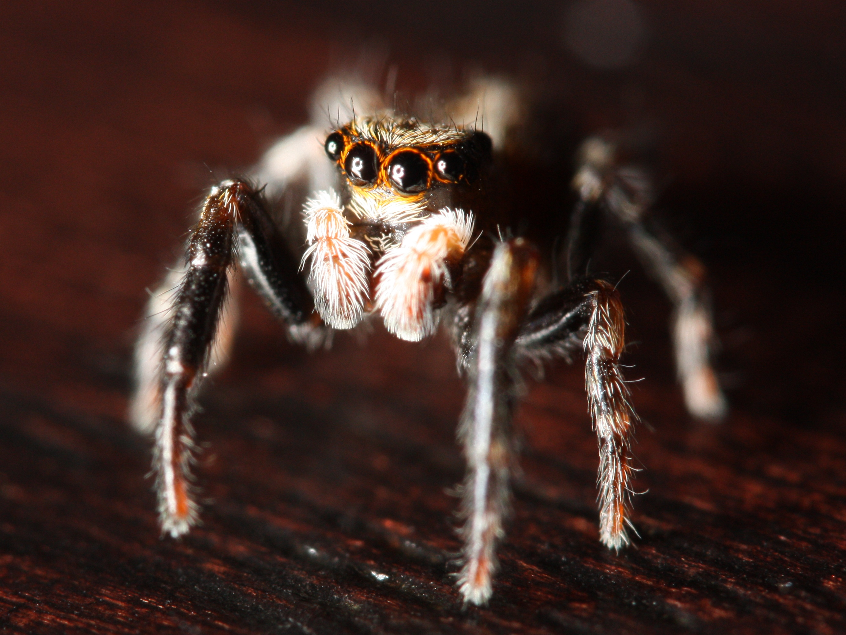 male adult Pseudeuophrys lanigera